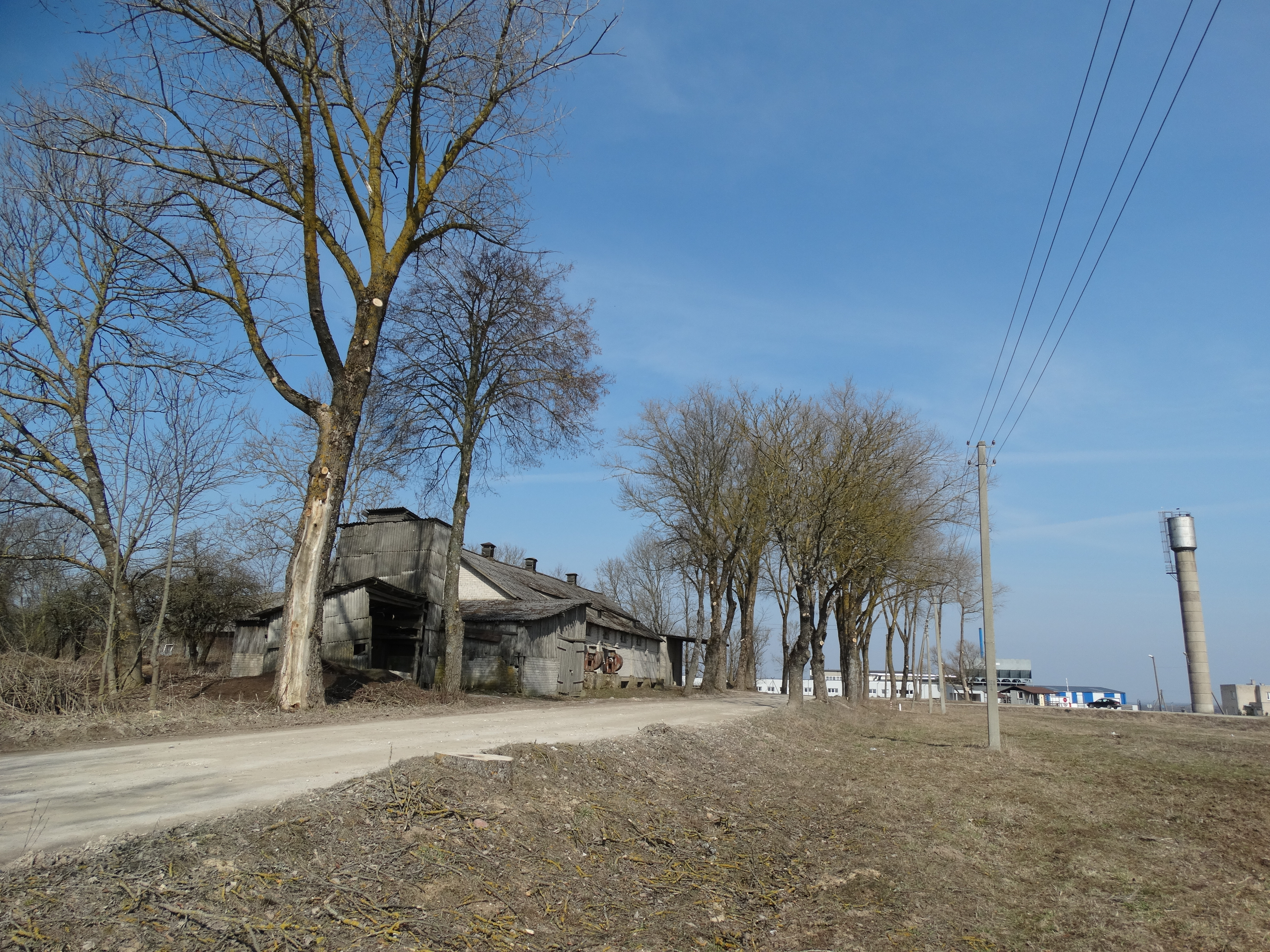 Antakalnis II, Ukmergė district, Lithuania